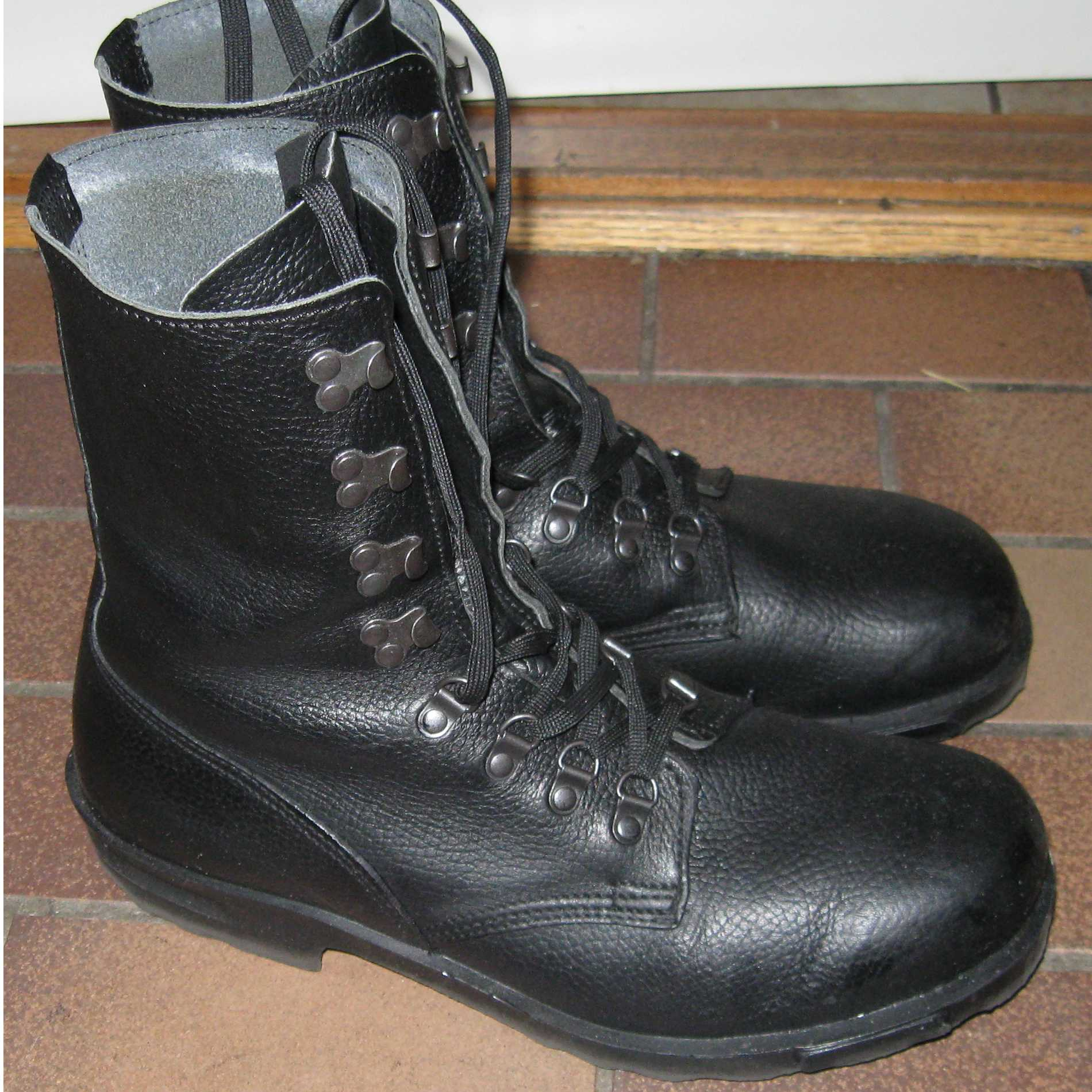 Norwegian Combat Boot M-77